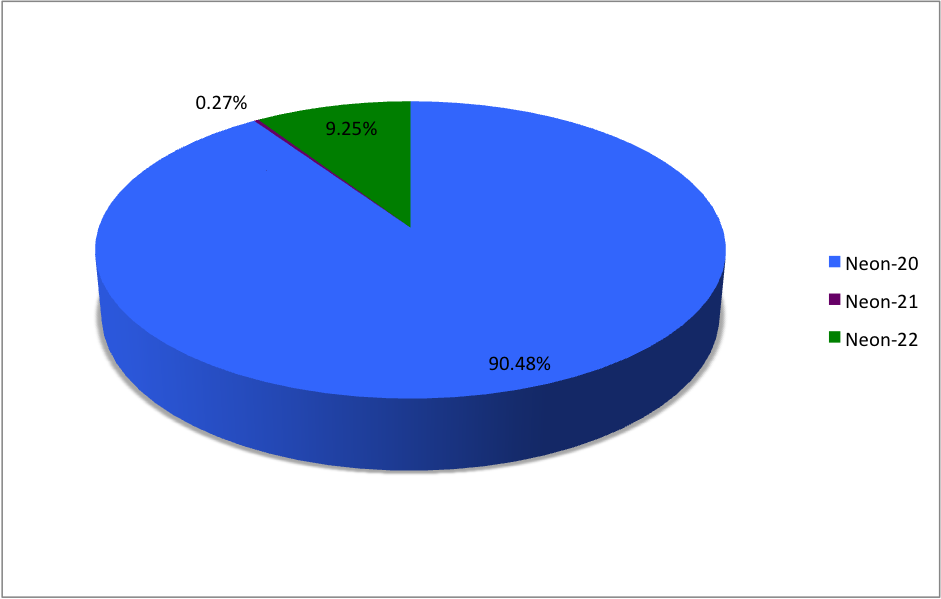 A chart showing the abundances of the naturally-occuring isotopes of Neon.